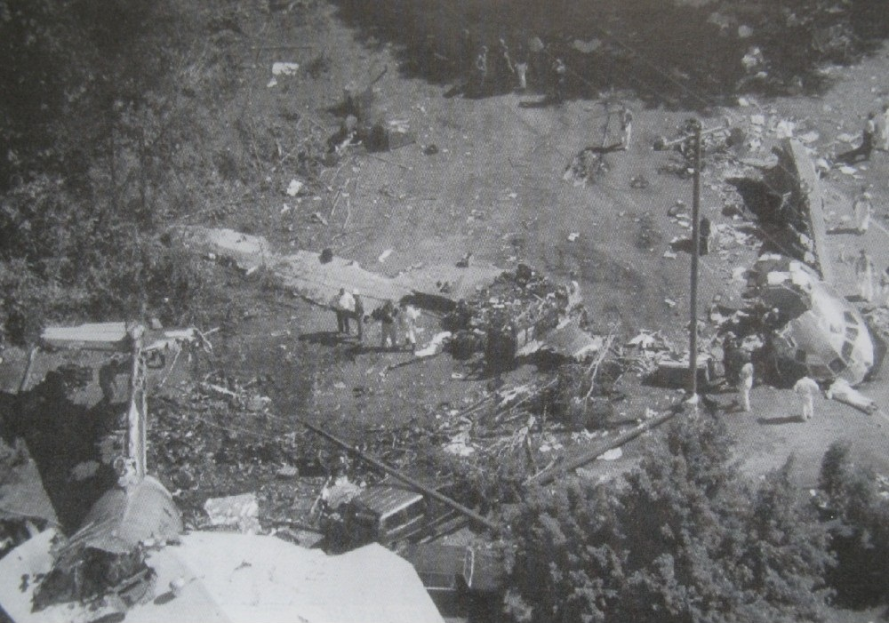 USAir Flight 1016. Charlotte, North Carolina.